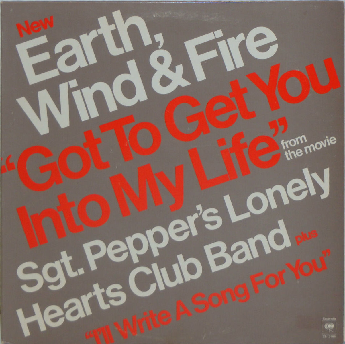 One of copies of the front sleeve of US 12-inch vinyl release "Got to Get You into My Life" by Earth, Wind & Fire